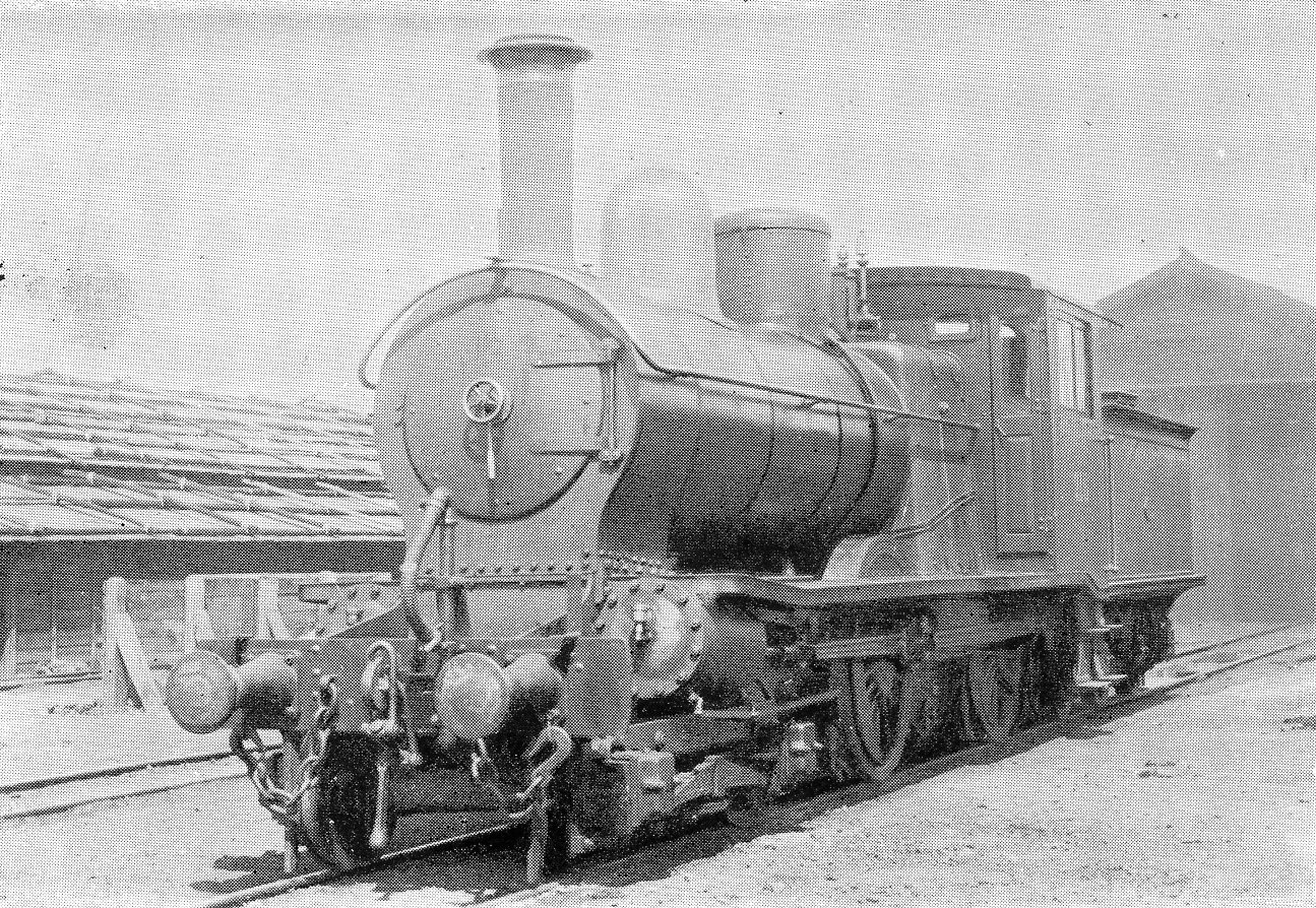 Japan Government Railway type 5600 steam locomotive